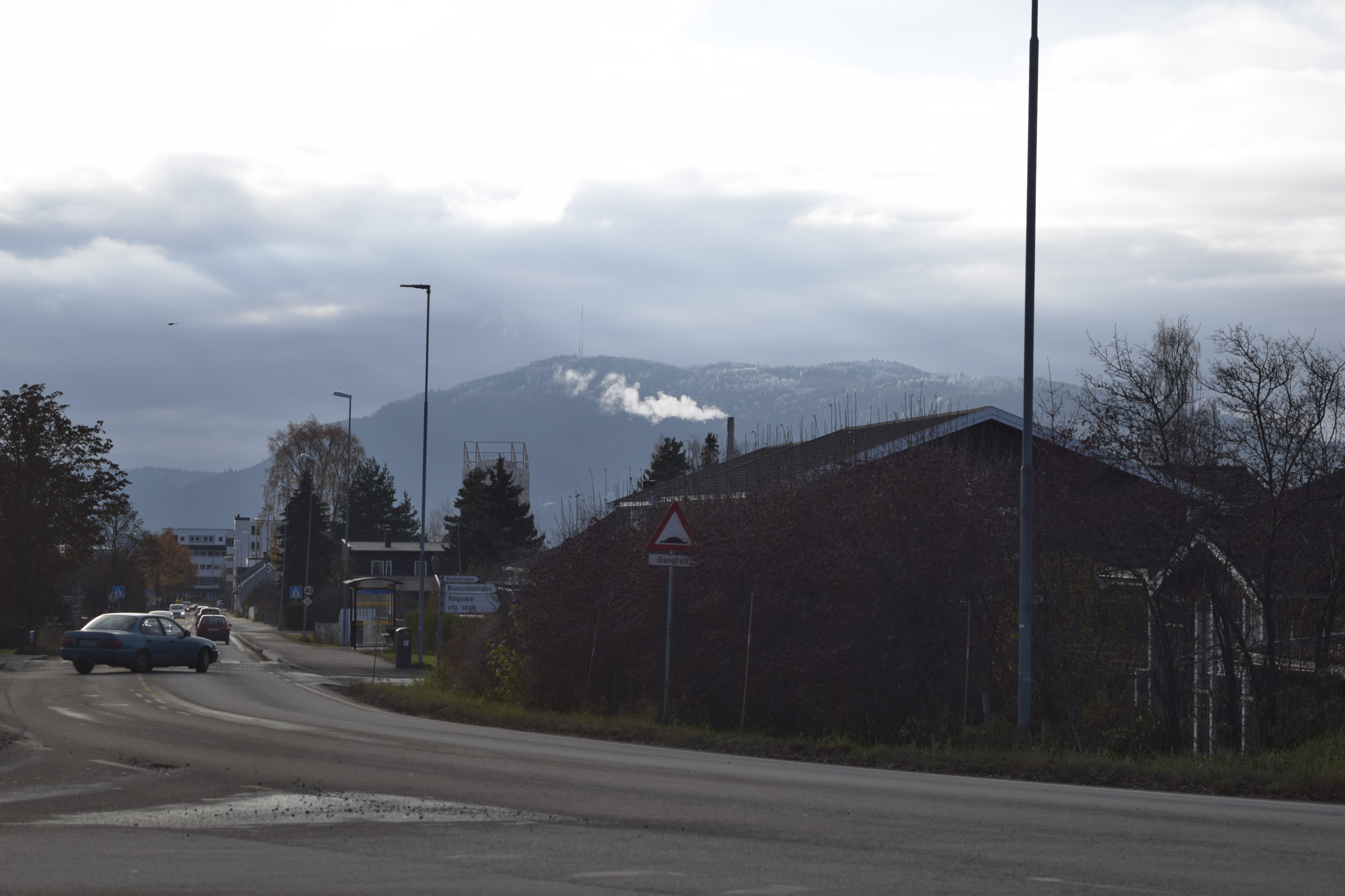 A car going down the street in downtown Brumunddal.